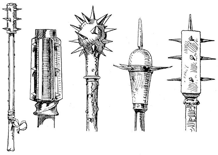 Morgenstern (middle) - illustration from a book "Handbuch der Waffenkunde" Das Waffenwesen in seiner historischen Entwicklung vom Beginn des Mittelalters bis zum Ende des 18 Jahrhunderts" by Wendelin Boeheim, Leipzig, 1890